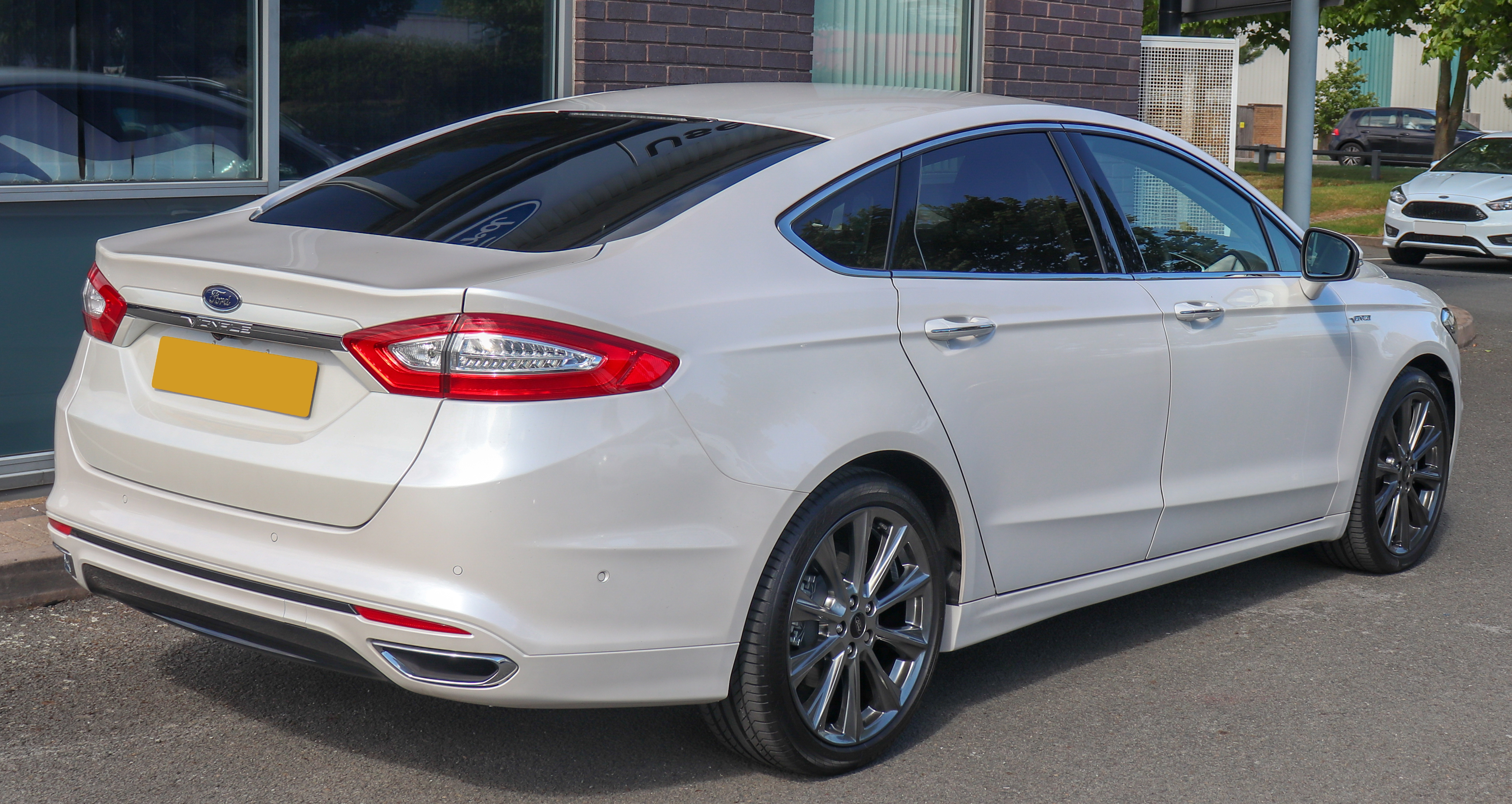 2018 Ford Mondeo Vignale TDCi Automatic 2.0 Rear